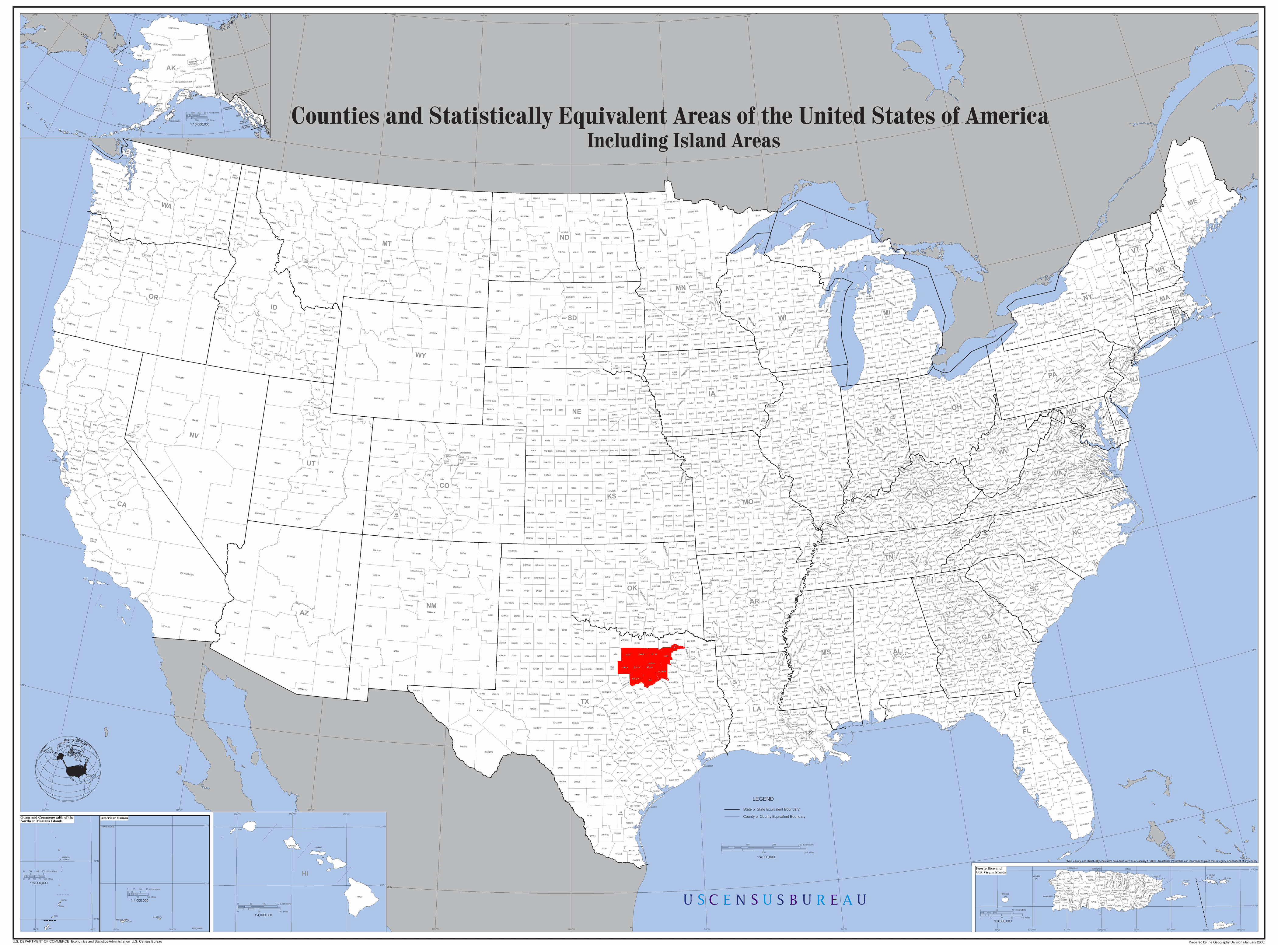 Edited Image:U.S. Counties.gif in w: .